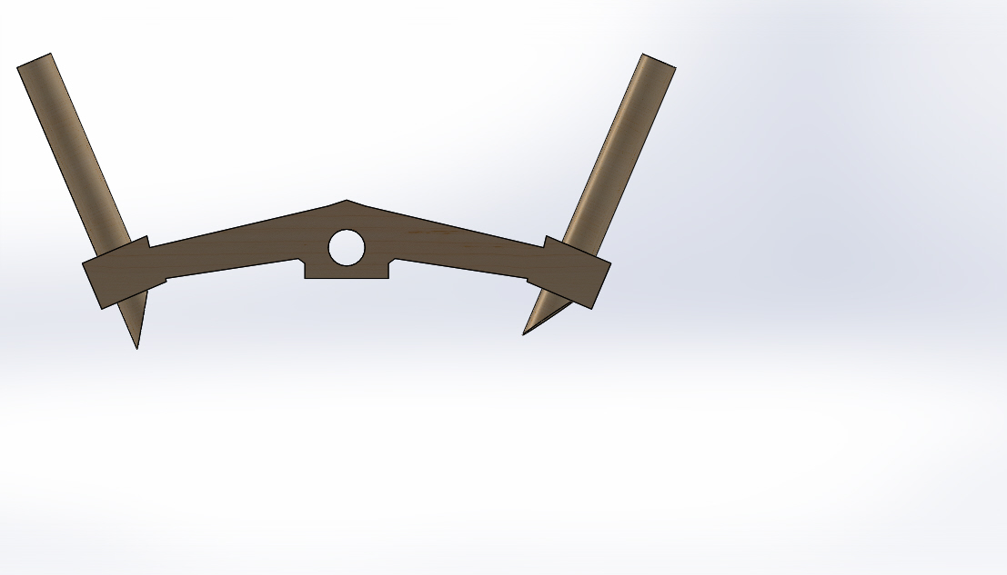 Adjustable anchor ratchet.